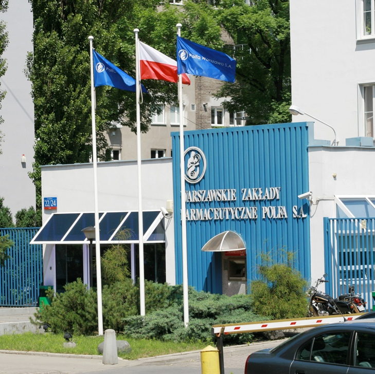 Premises of Polfa Warszawa S.A.